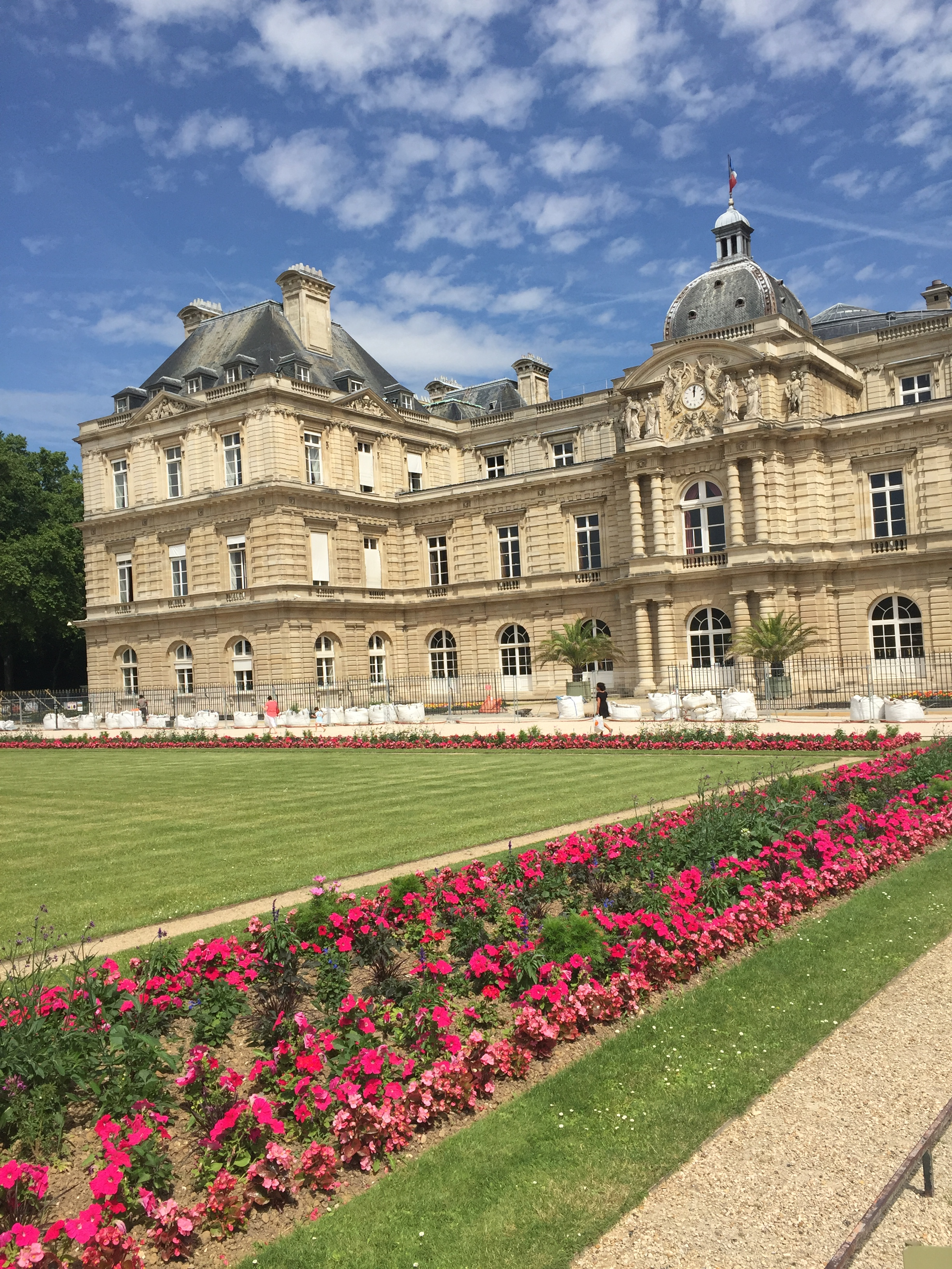 Jardin du Luxembourg (left) and Louxembourg Palace (centre) in Paris, France